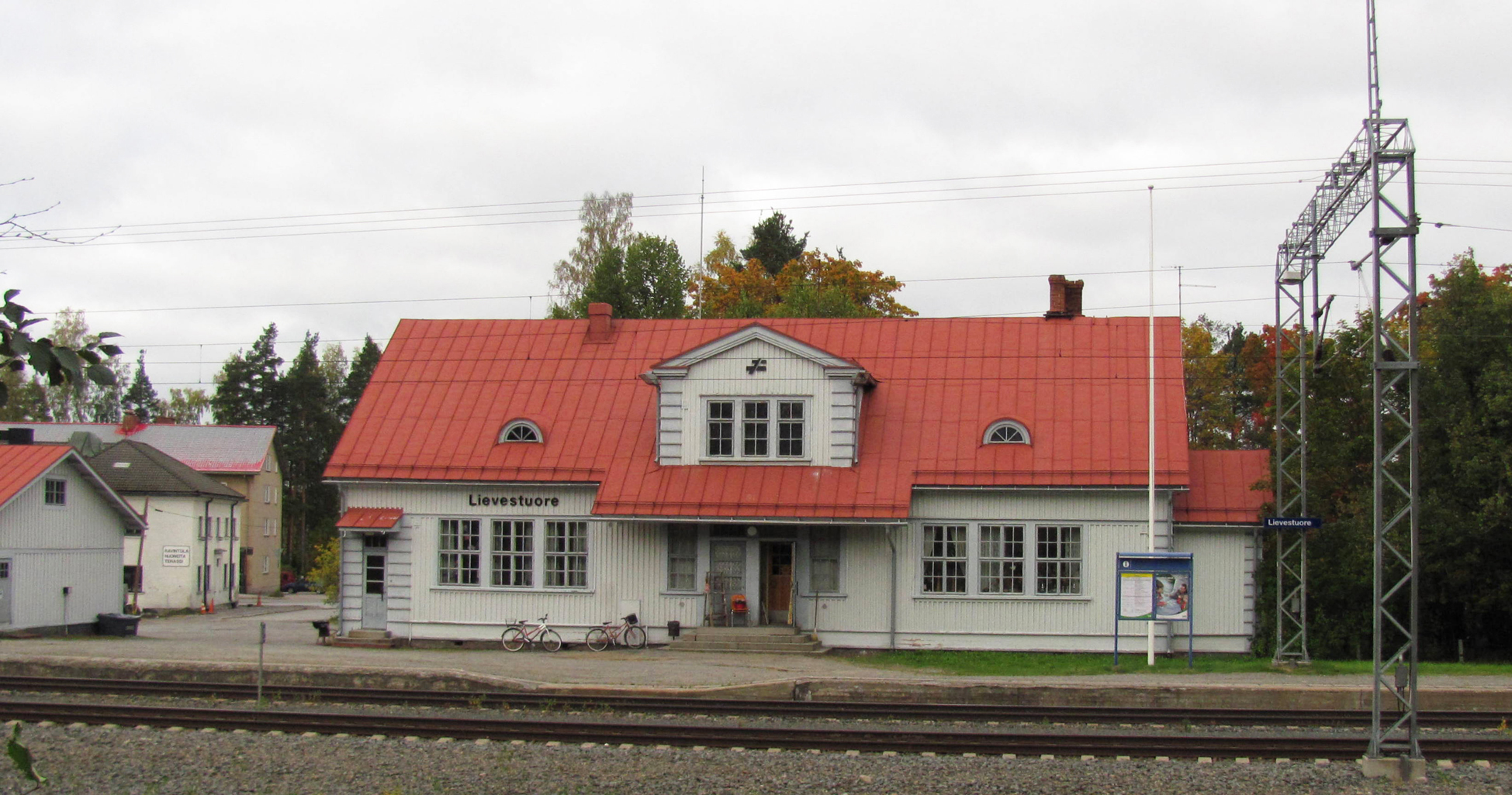 The train station in Lievestuore